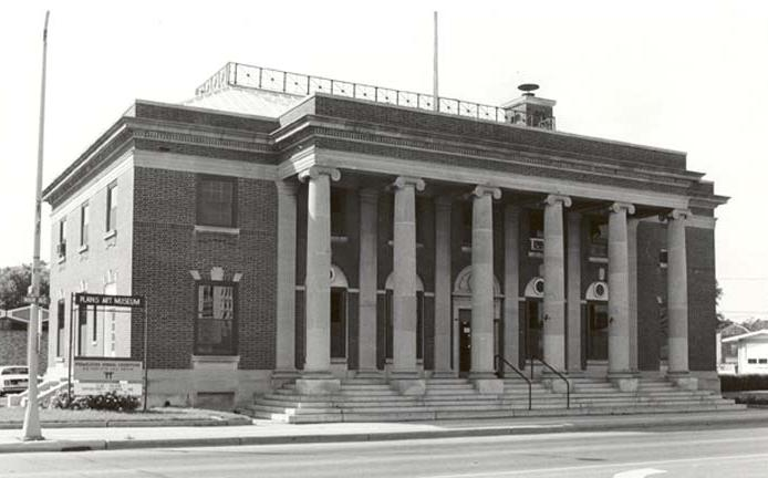 Moorhead, Minnesota Federal Court House and Post Office (1980) Completed 1915. Supervising Architect: Oscar Wenderoth Building used by the U.S. District Court for the District of Minnesota. Now the Rourke Art Museum.